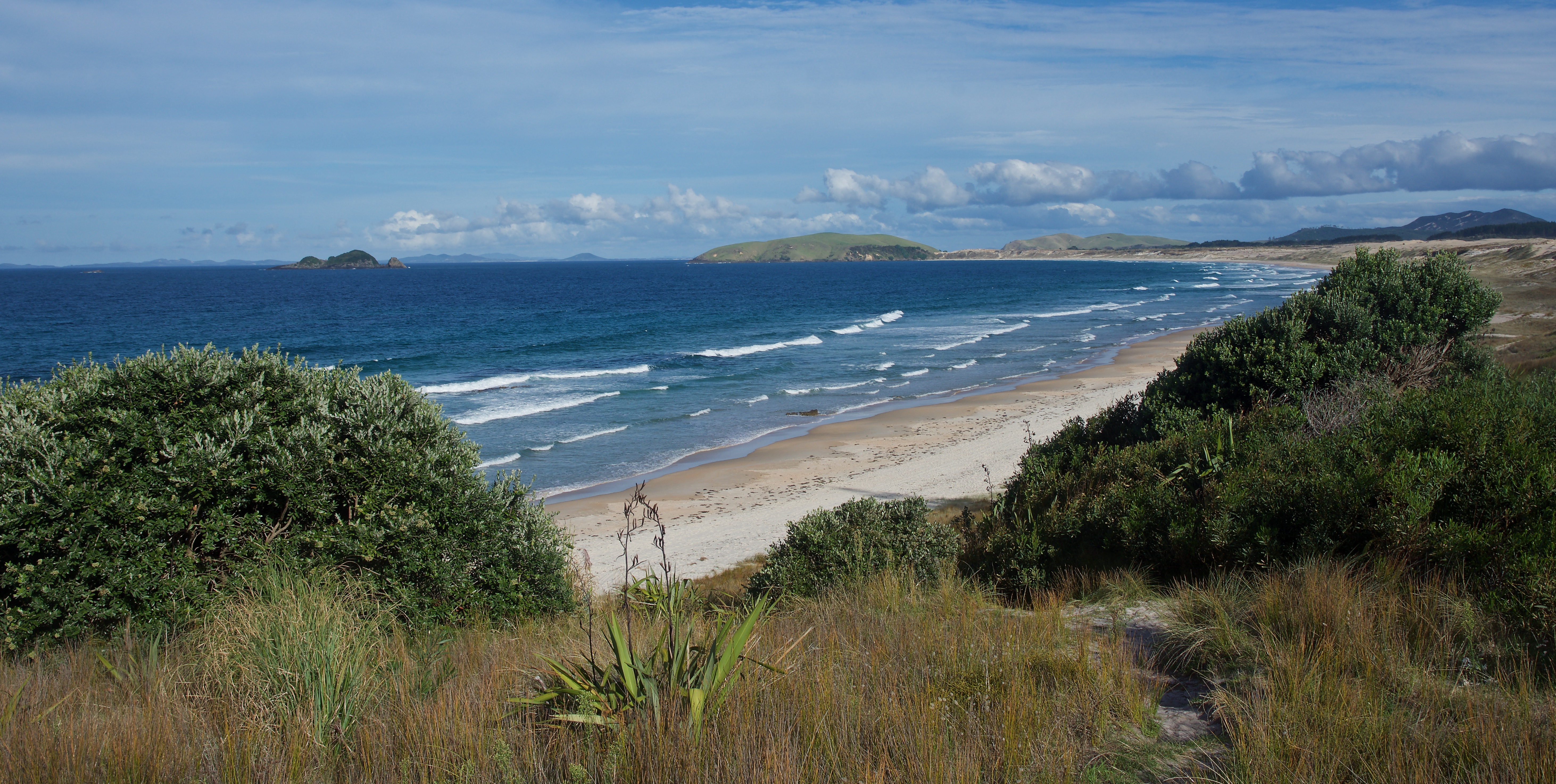 Henderson Bay, Northland, New Zealand